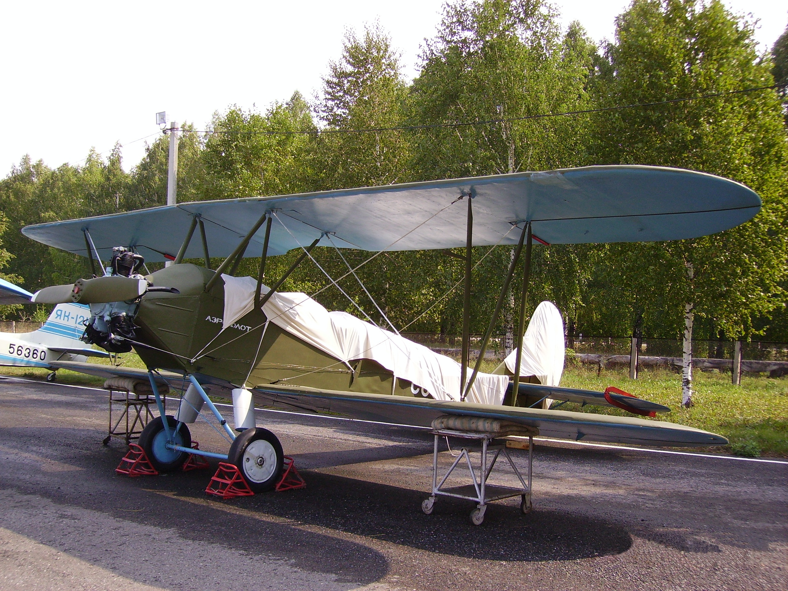 Po-2 in Ulyanovsk Aircraft Museum